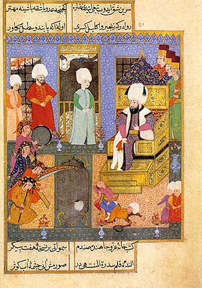 Musicians in front of Sultan Mehmet III. Musicians with flutes, harps, fidels and drums are playing in front of the sultan. Ottoman miniature painting, from the poem anthology "Mehmed bin Abdülgani bin Emirsah" (Pseudonym "Nadiri“), in the style of Ahmet Naksi. Topkapı Sarayı Müzesi, Istanbul (Inv. H. 889, f ° 8 v°)